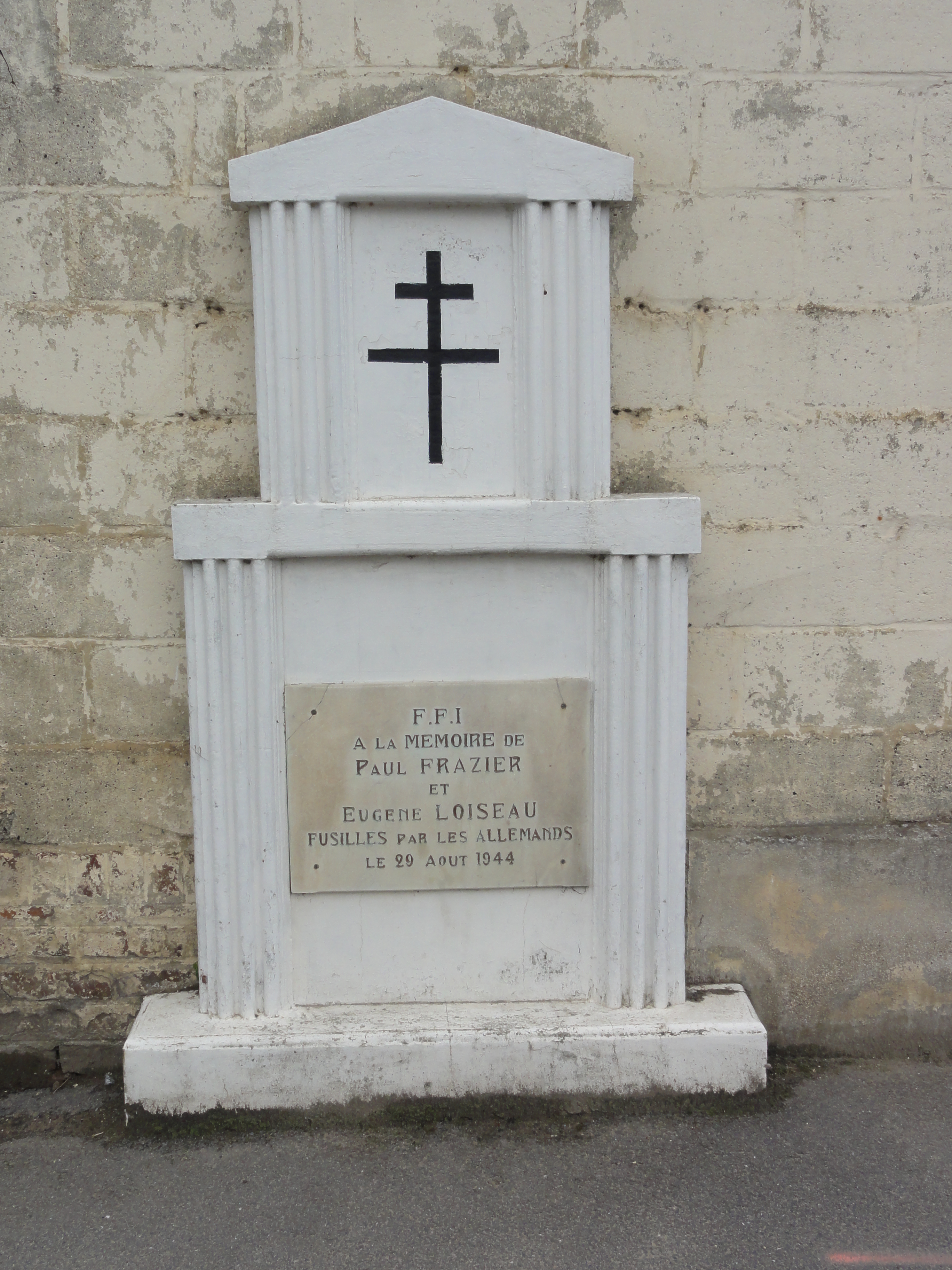 Deuillet (Aisne) monument de 2 fusillés